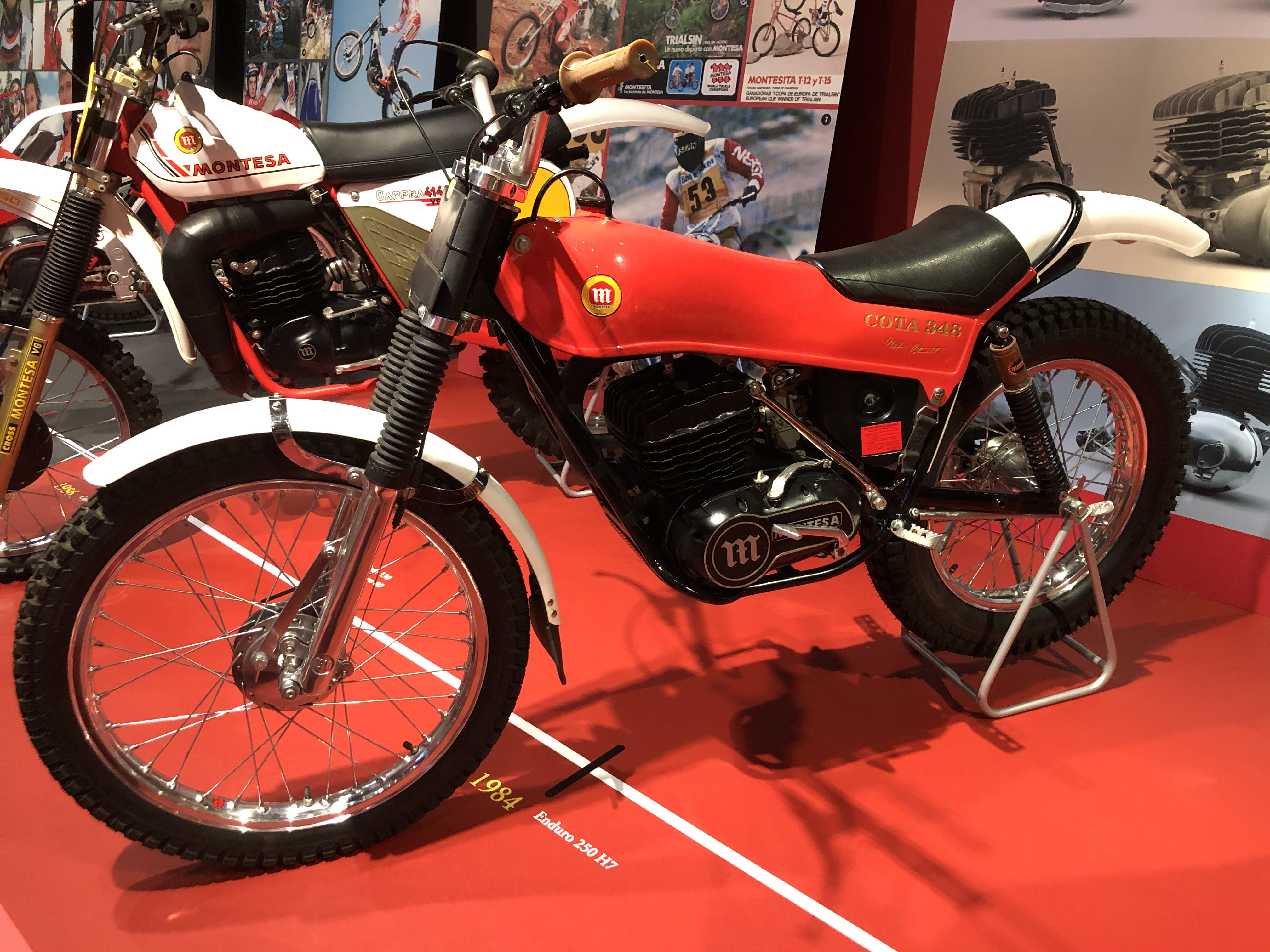 Montesa Cota 348 (1976). Mod. 51M, 305,8 cc